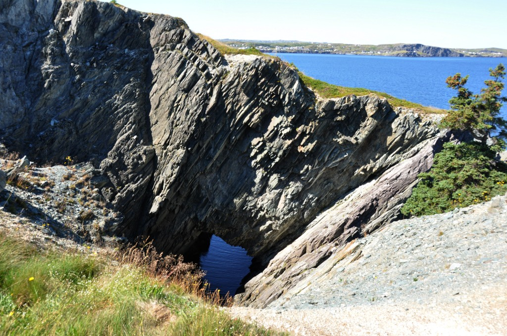 Burnt Head Arch Municipal Heritage Site, Cupids, Newfoundland.